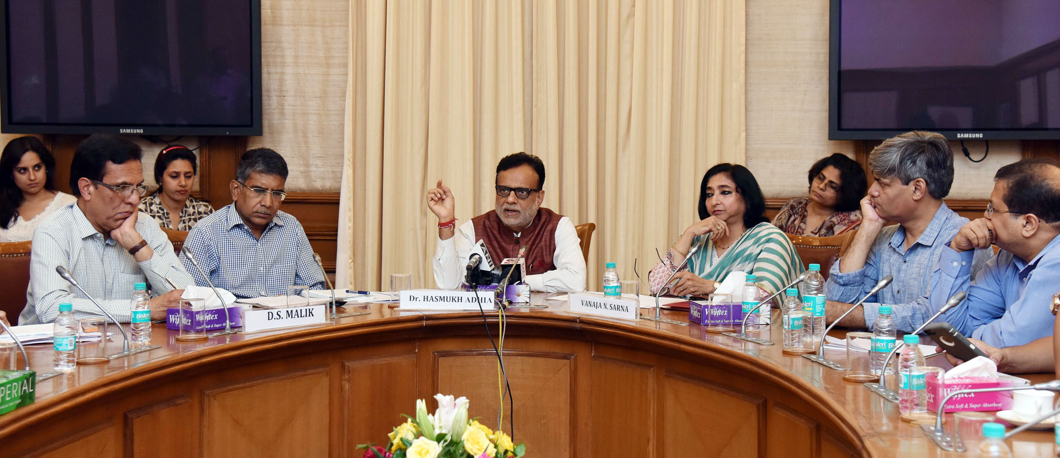 The Revenue Secretary, Dr. Hasmukh Adhia addressing a press conference on the issue’s related to implementation of GST, in New Delhi on July 04, 2017.